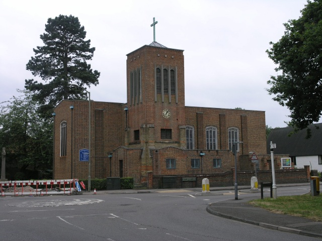 Merstham Anglican Church. Parish Church of All Saints, South Merstham